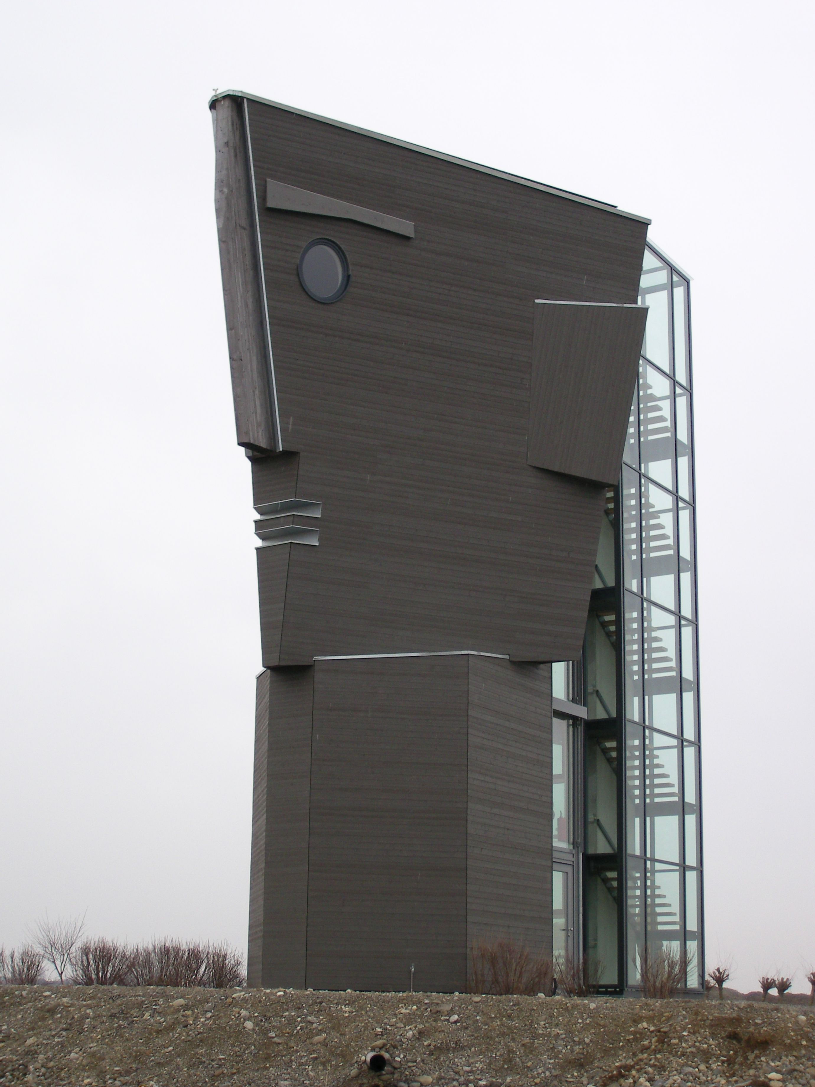 The four-storied office-building "Holzkopf" (Woodhead) of the Baufritz company in Erkheim, Germany.